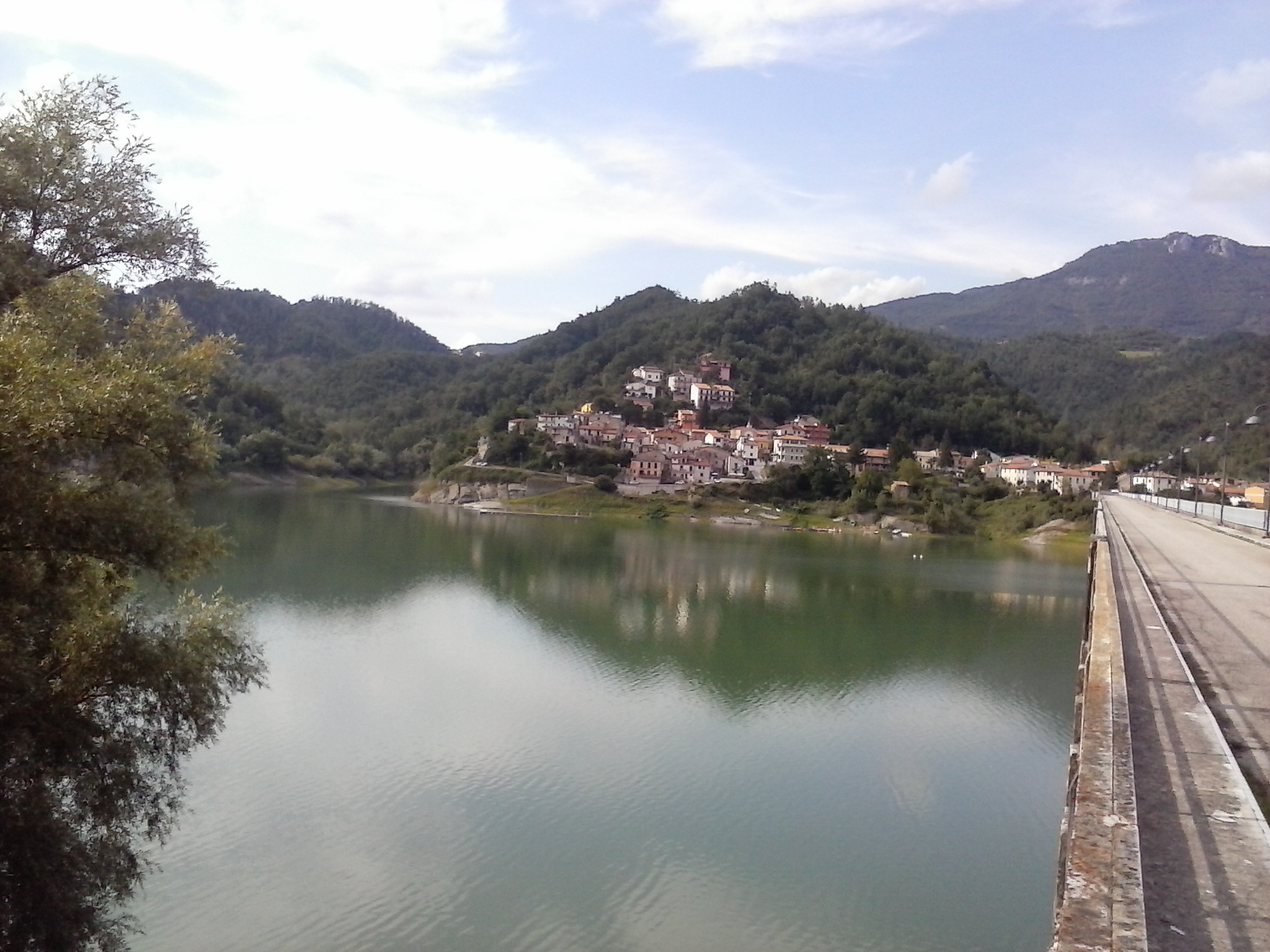 Il paese di Fiumata, frazione di Petrella Salto (provincia di Rieti) si specchia sul lago del Salto. In primo piano il "ponte pacifico" della strada provinciale.